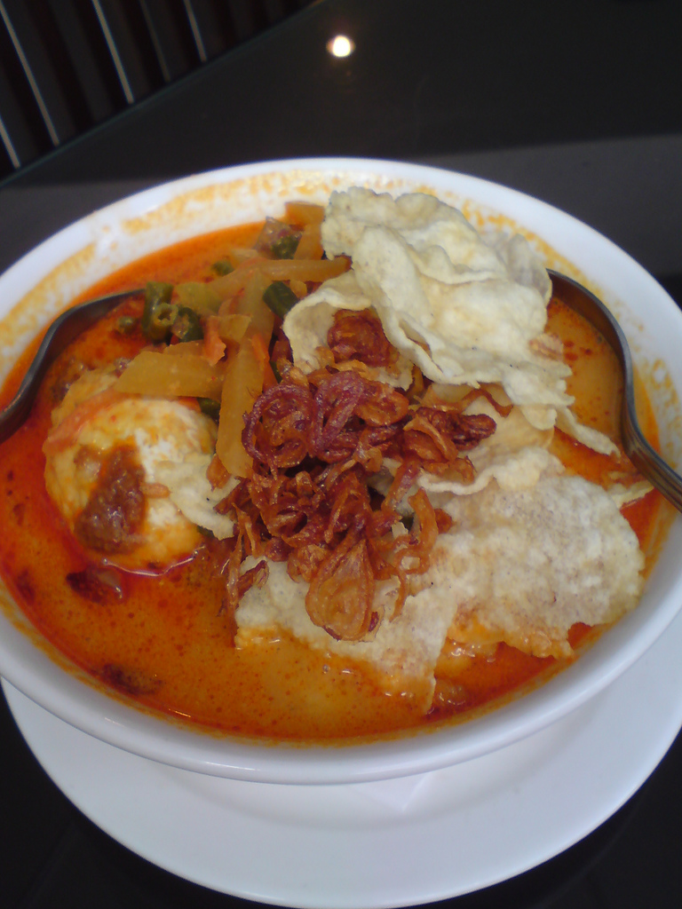 Lontong Sayur, rice cakes served with coconut milk curry.